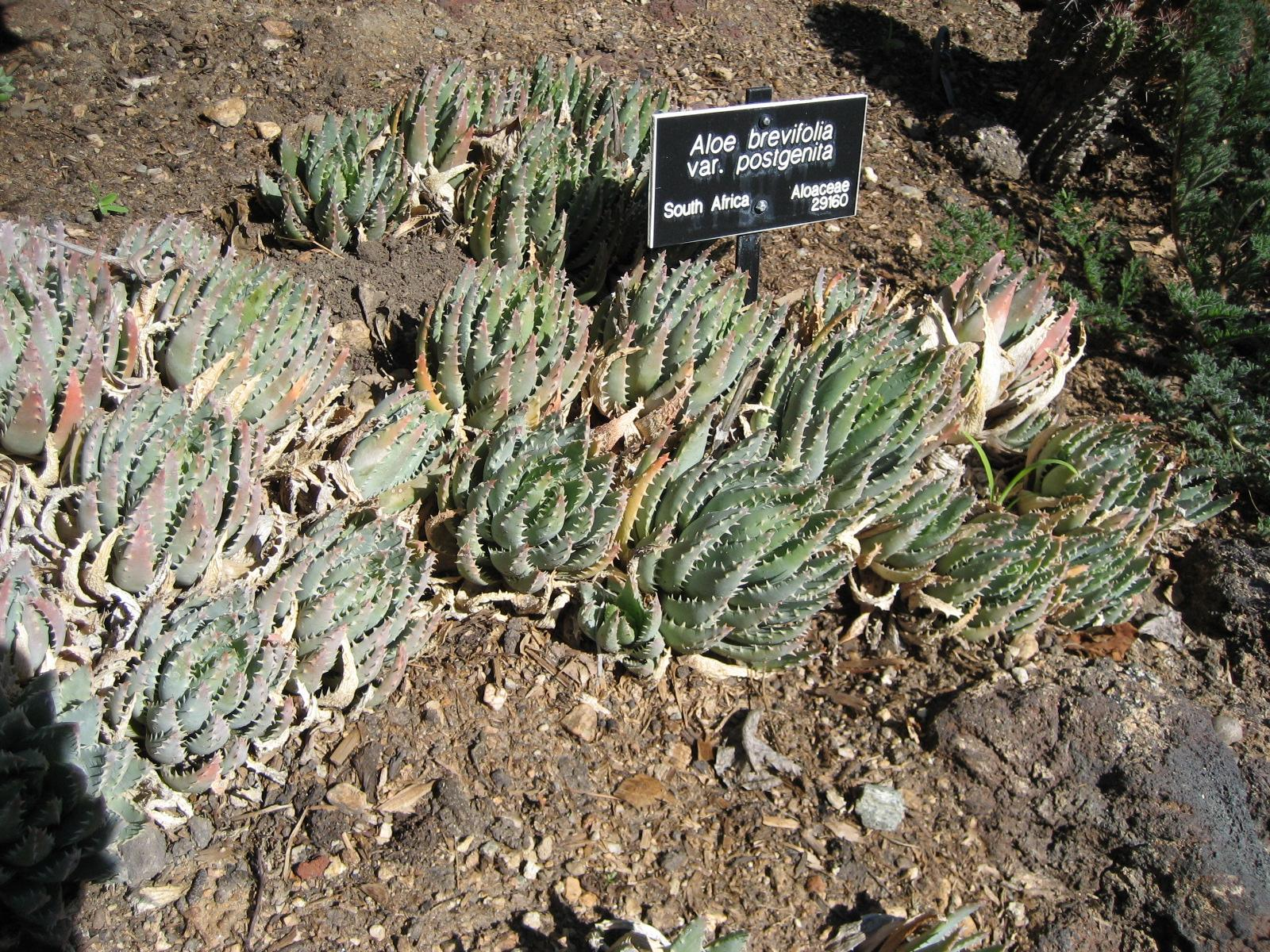 Photographed at Huntington Gardens (Los Angeles) in March